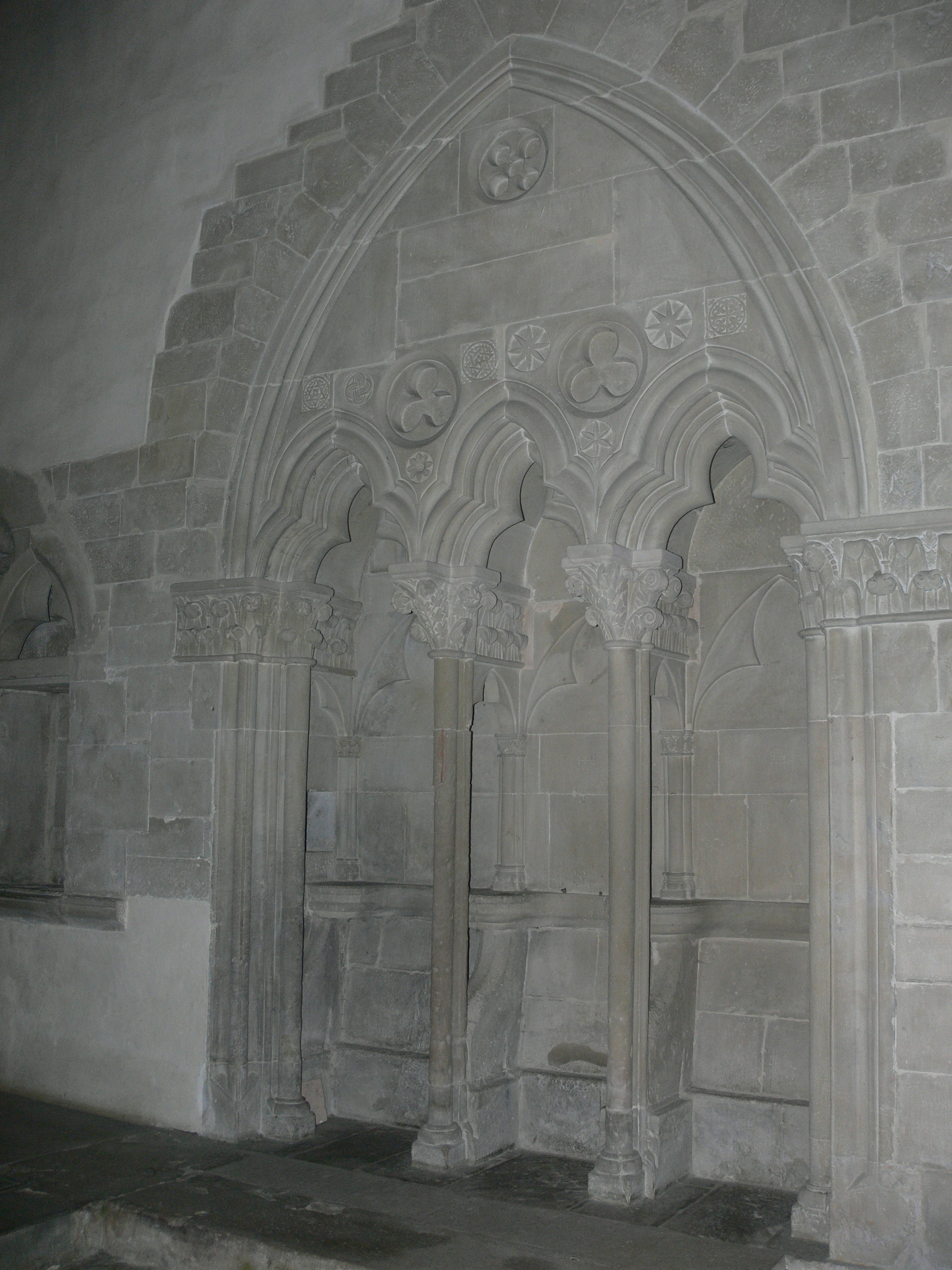 Celebrant seats in the Kappel monastery (Switzerland)